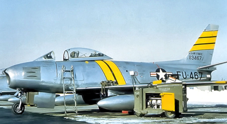 53d Fighter-Day Squadron - North American F-86F-25-NH Sabre - 51-13467